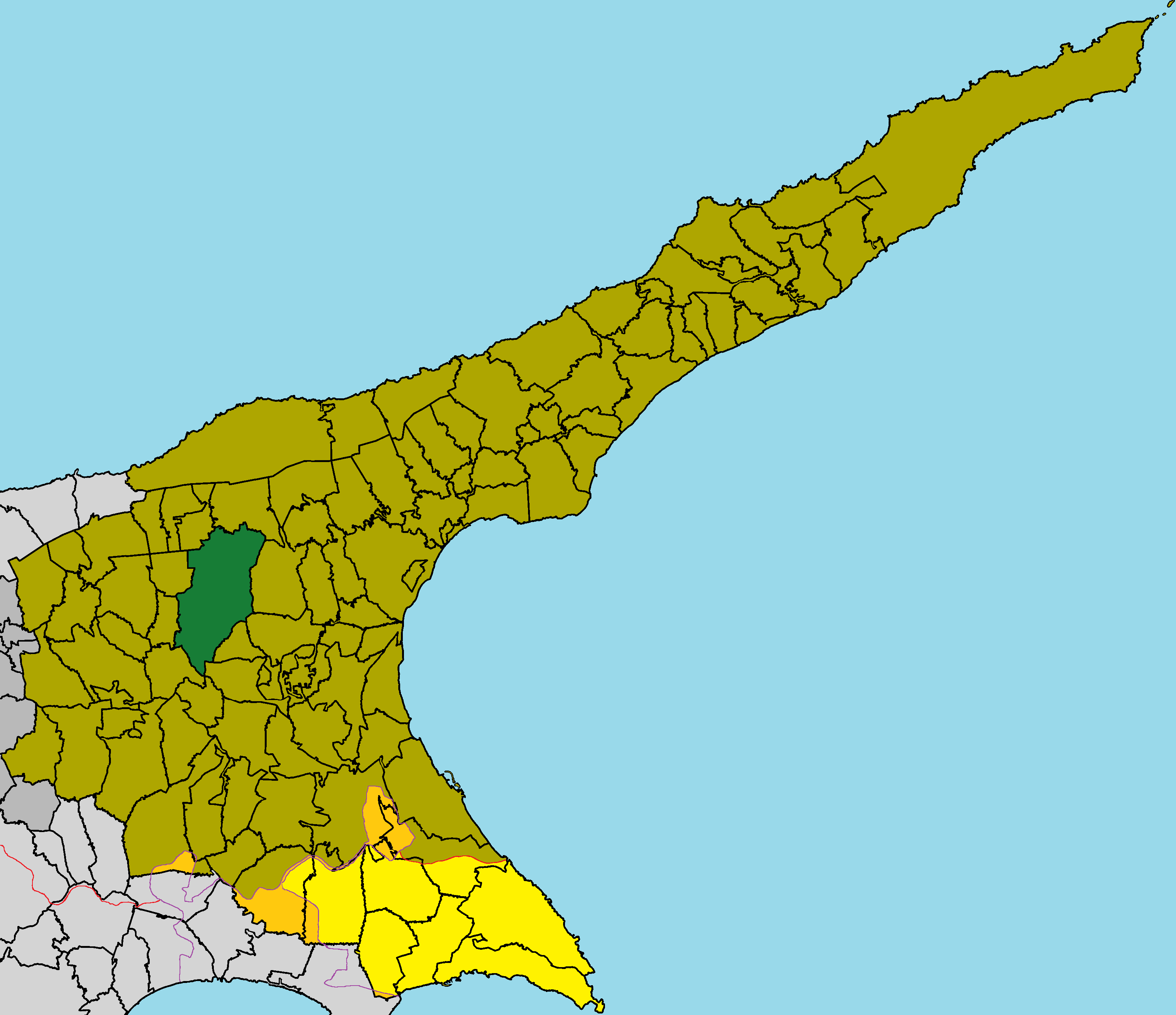 Lefkoniko in Famagusta District (de jure).